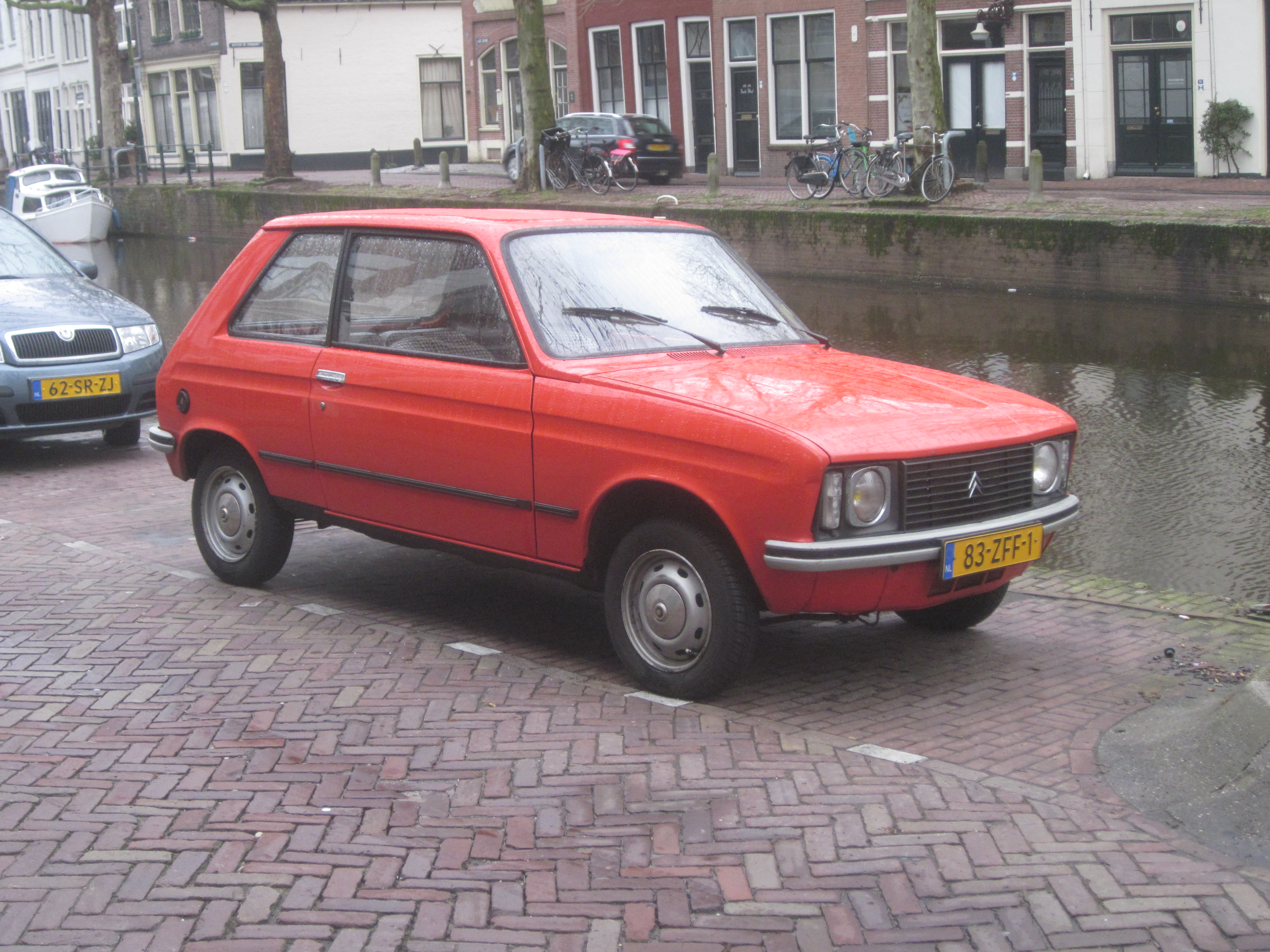 Citroën LN